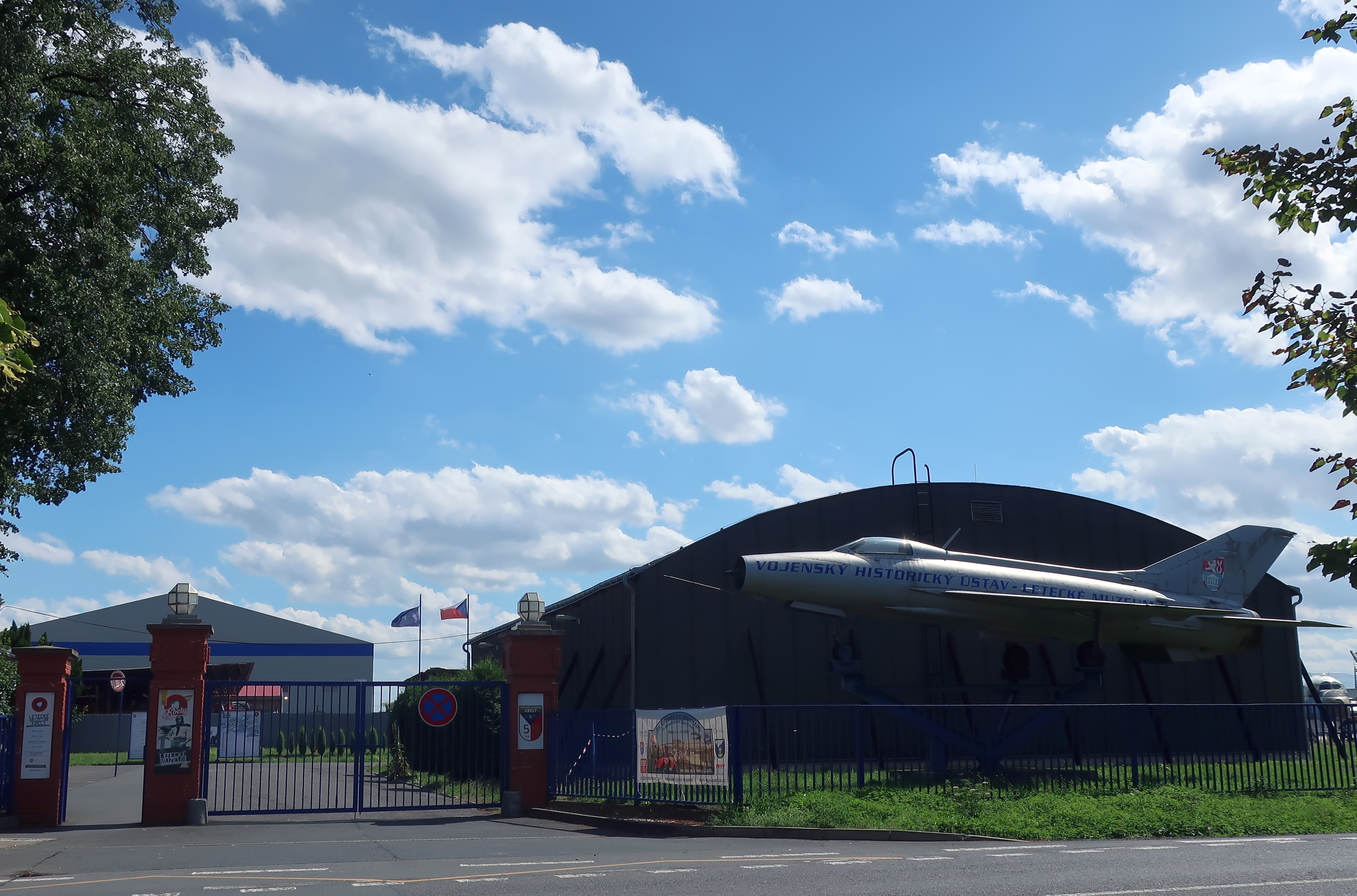 Photo taken in 2019